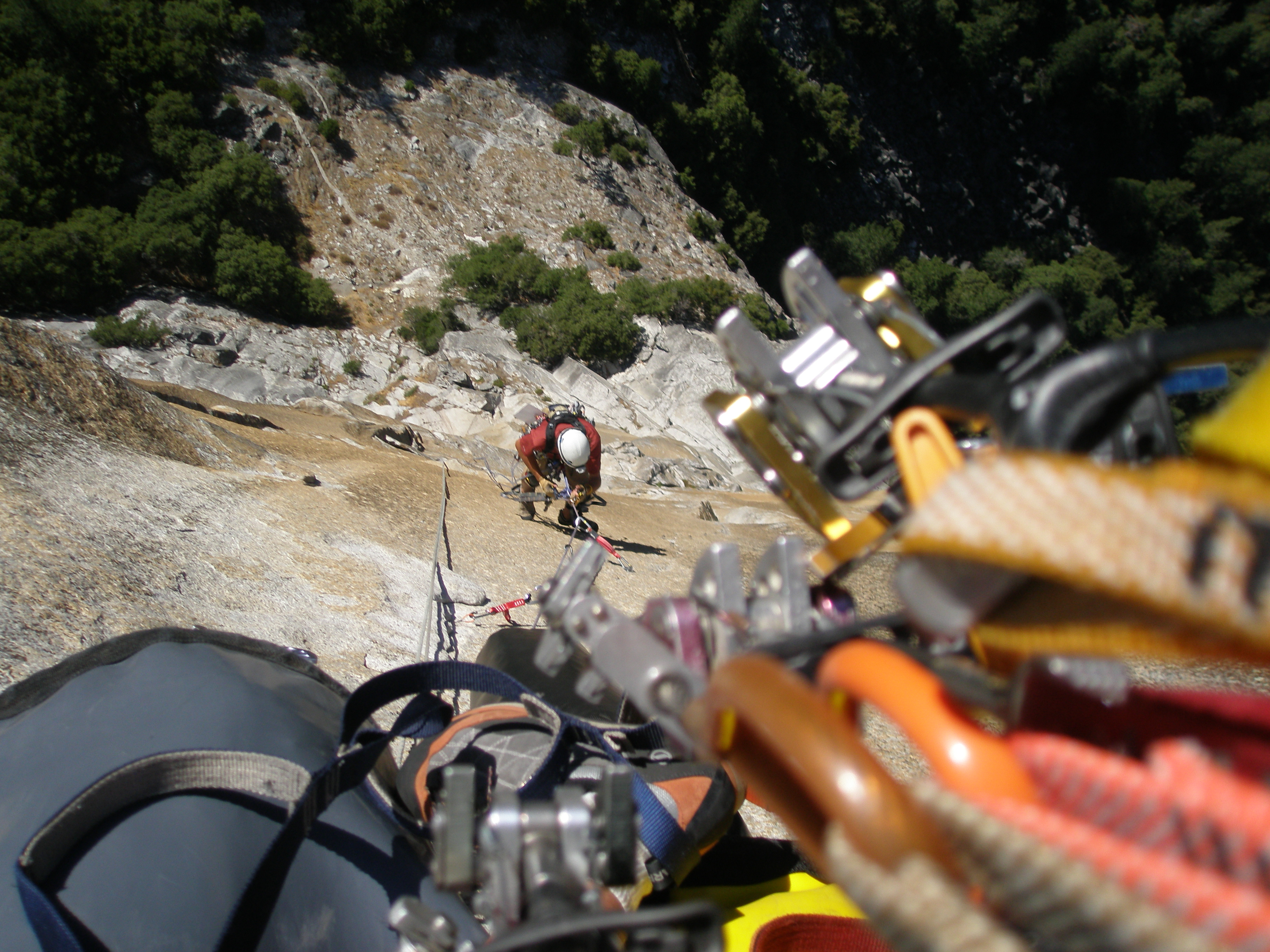 A climber follows the Prow route on Washington Column in Yosemite Valley.